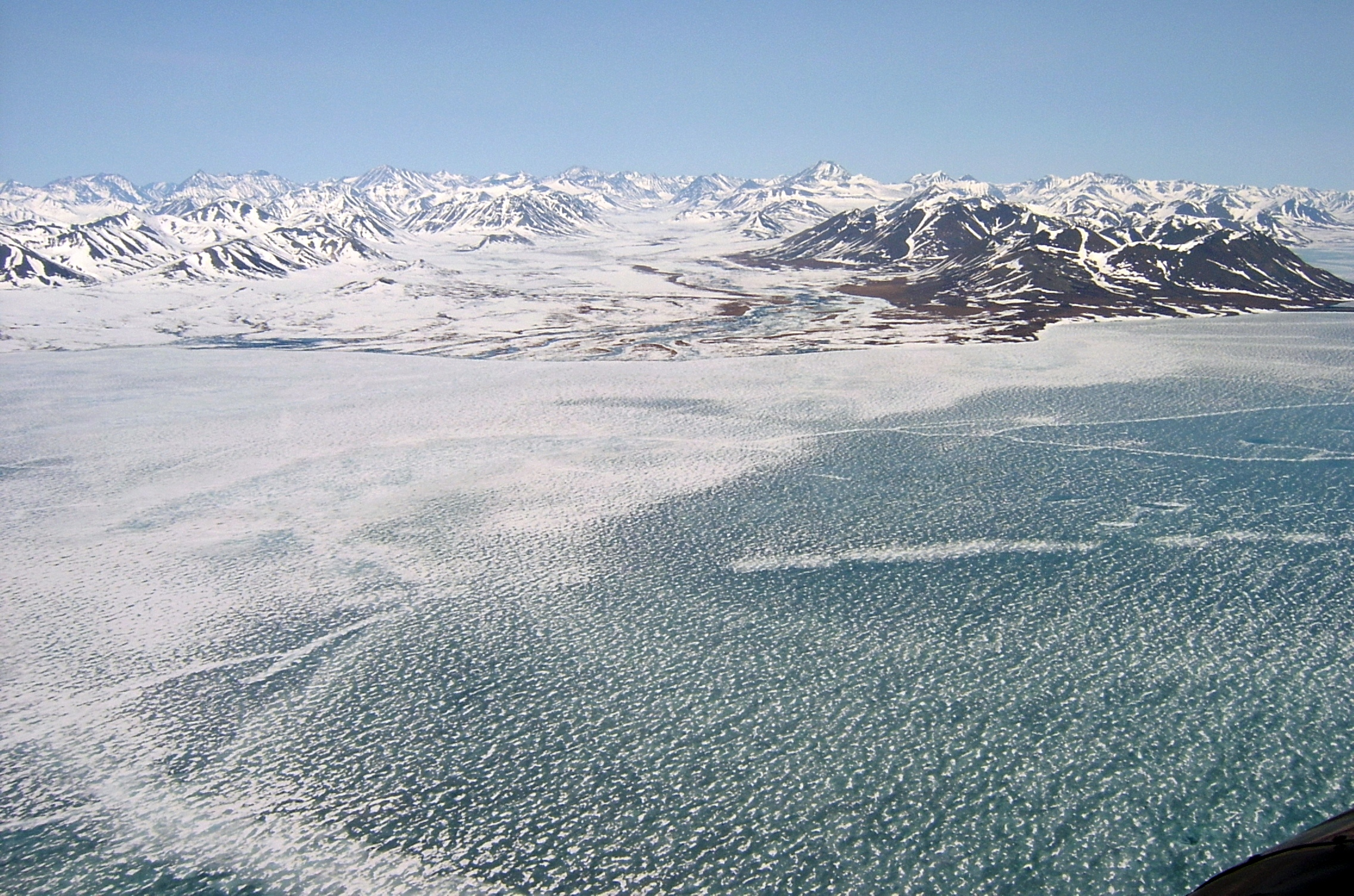 Pekulneyskoye Lake on Chukotka, Russian Federation from helicopter